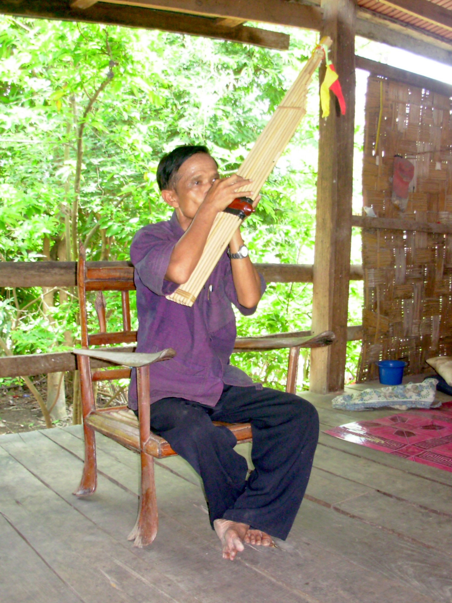 A Mangkong man in Savannakhet province of Laos plays a khene (khaen) in his home. The Mangkong are one of the 49 ethnic groups recognized by the Lao government. The khene is a traditional instrument, played by many ethnic groups in Laos and Thailand.